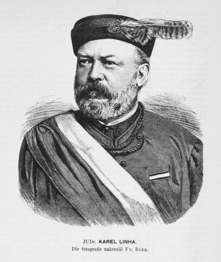 Portrait of Karel Linha (1833-1887), Czech lawyer and chairman of Sokol association